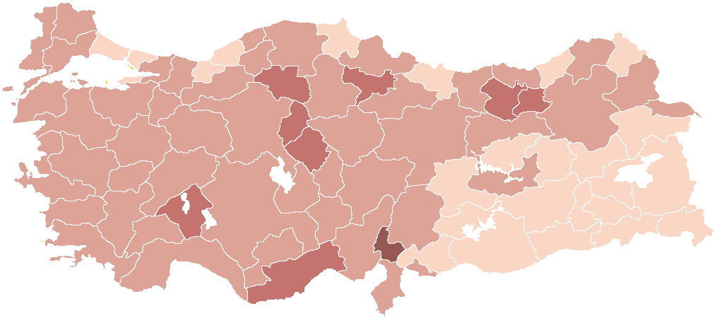 Nationalist Movement Party performance in the Turkish general election, November 2015